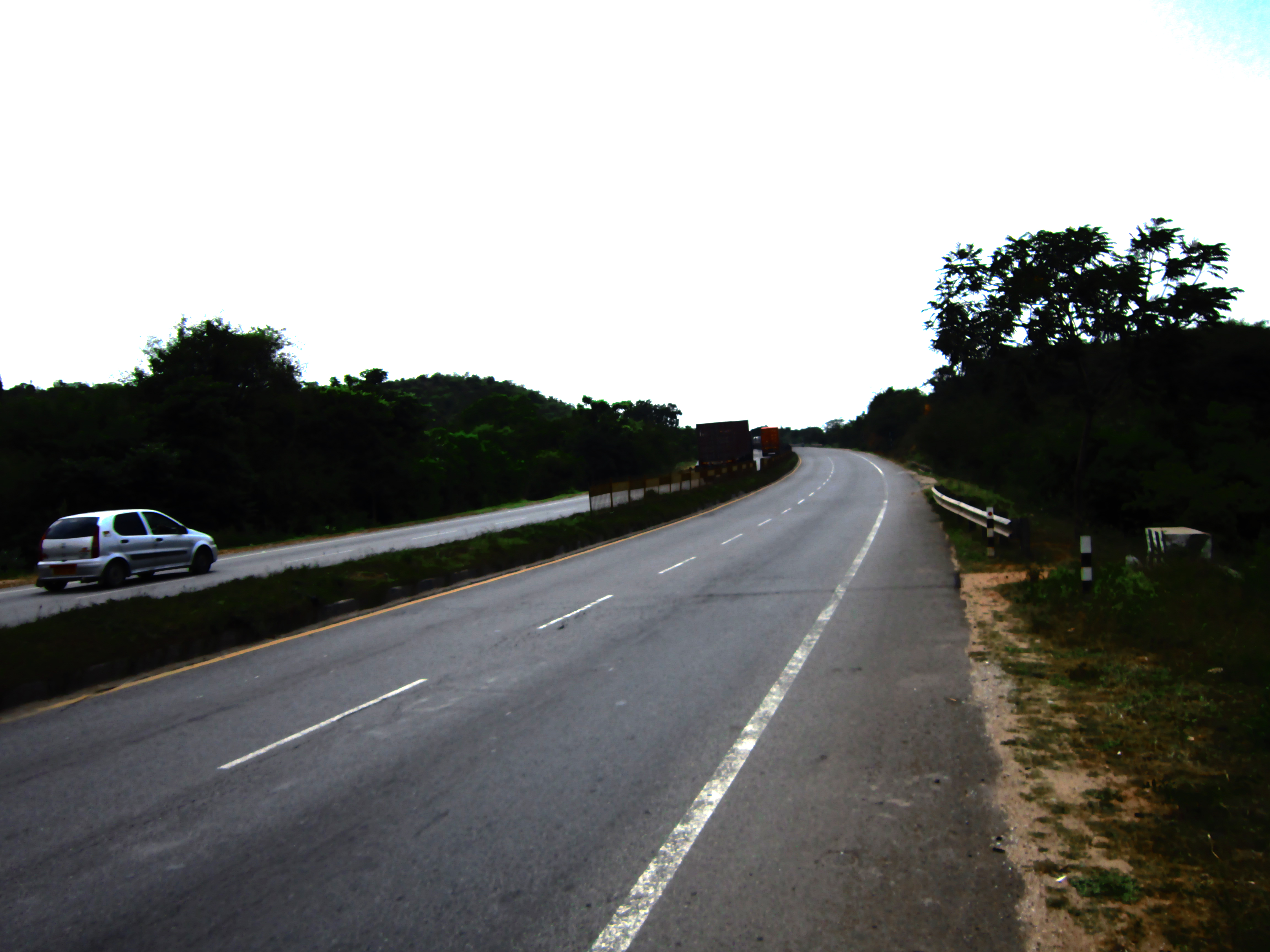 Typical Indian National Highway.